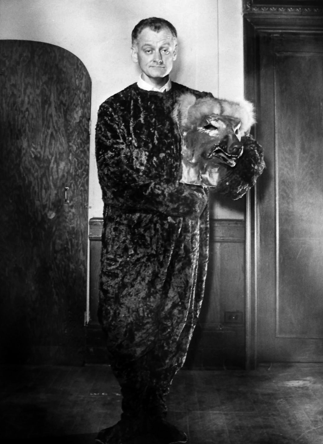 Photo of Art Carney in a dog costume for "The Man in the Dog Suit", which was aired as an episode of Carney's television program. Carney had his own NBC variety television show from 1959 to 1960.